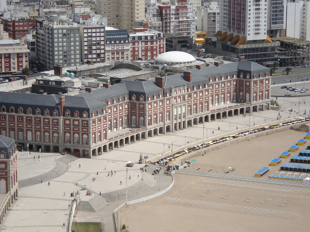 Casino Central de Mar del Plata, designed by Alejandro Bustillo, inaugurated in 1939, and the largest in the world at the time.